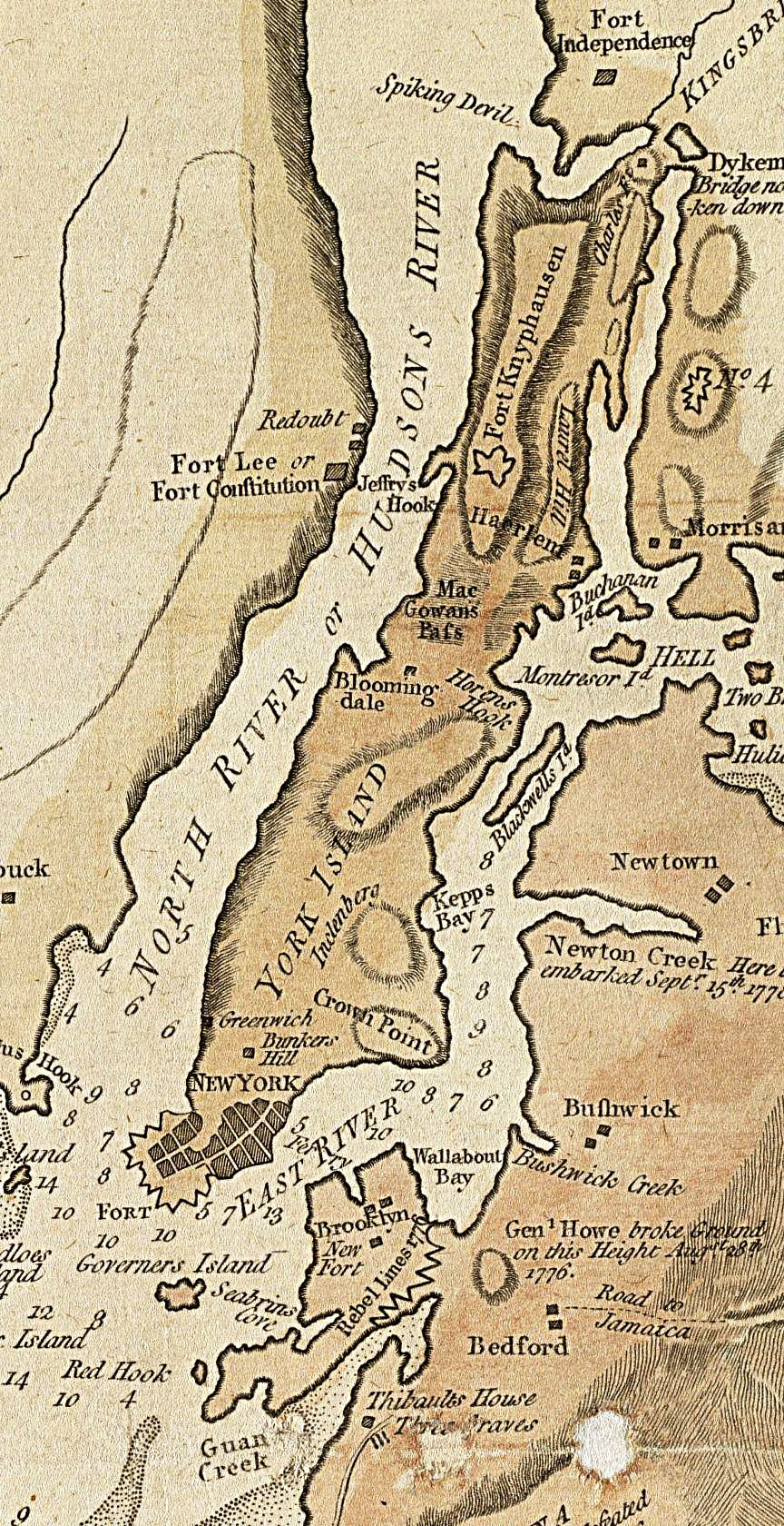 A section of a 1781 British map and nautical chart of New York and its harbor. Image has been cropped to show primarily Manhattan, color level adjusted, and sharpened from the original.